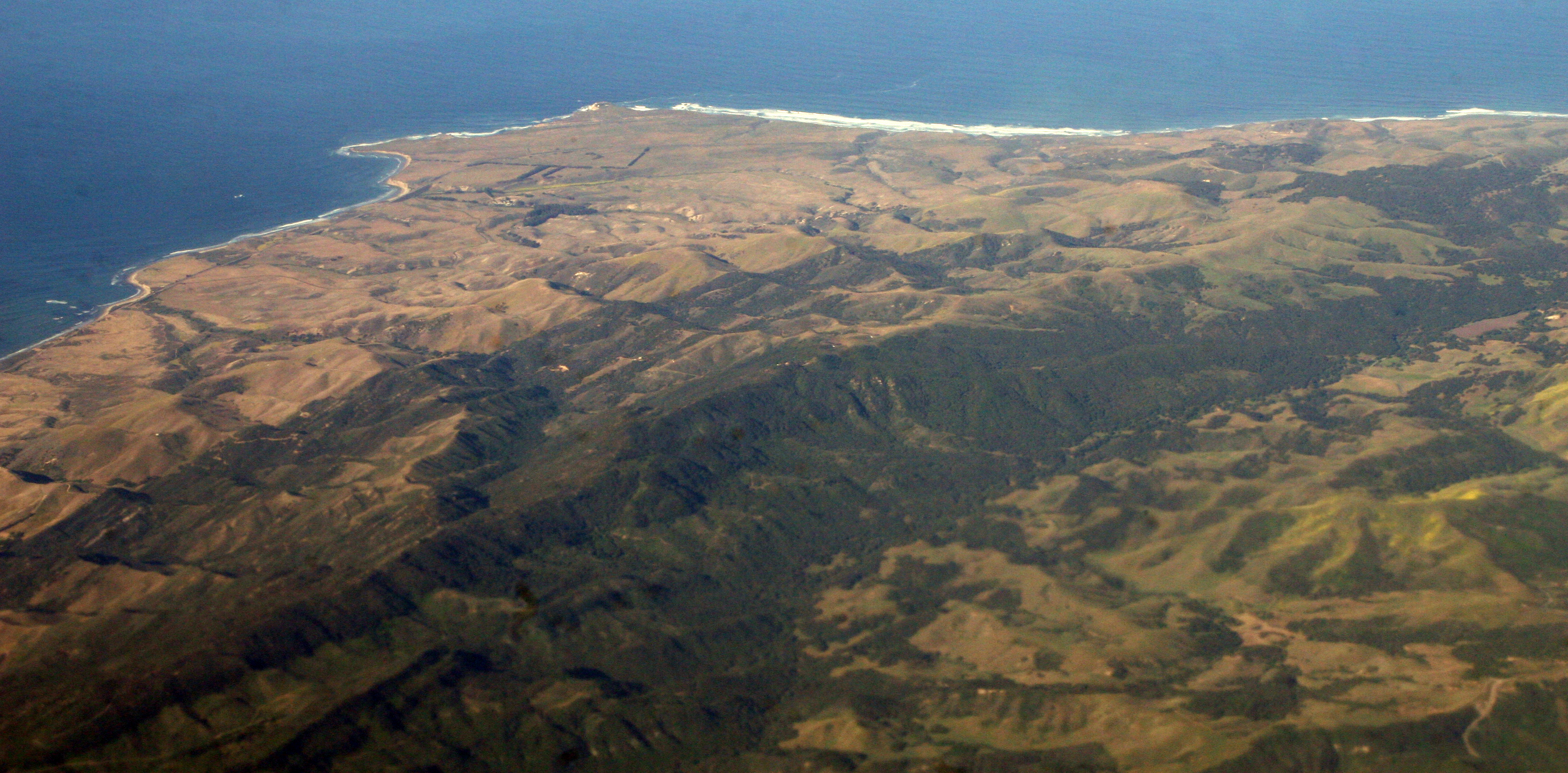 Point Conception, with the Gaviota Coast on the left (south) and Jalama Beach on the right (west). The mountains are the Santa Ynez, and are the western end of a transverse range. From here we are looking at the slanted strata of resistant Eocene rocks that were originally sea floor, far to the south. This end of the mountains were originally by what's now San Diego, and rotated clockwise out into what's now the Pacific, around a pivot point just west of what's now Los Angeles — all while everything was also moving. Som excellent animations of this history can be found at this UCSB site